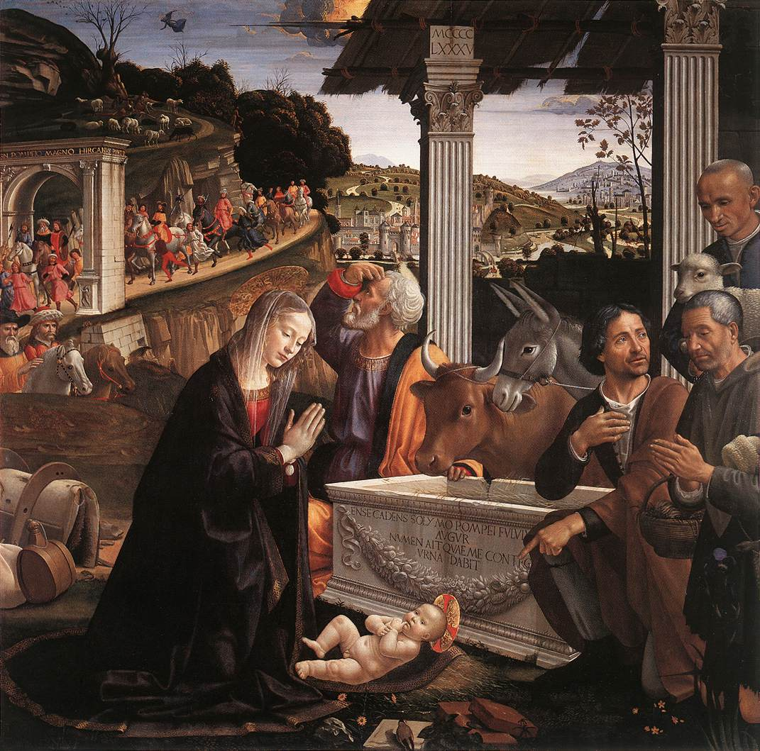 GHIRLANDAIO, Domenico Adoration of the Shepherds Panel, 167 x 167 cm Santa Trinità, Florence